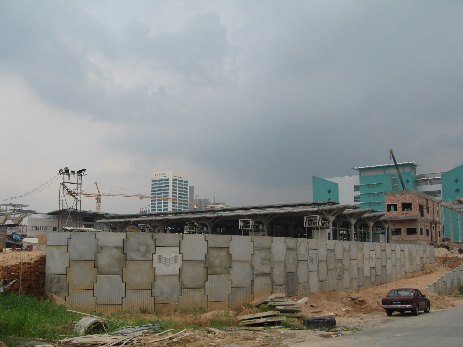 Johor Bahru new CIQ Complex as part of Southern Integrated Gateway (under construction).